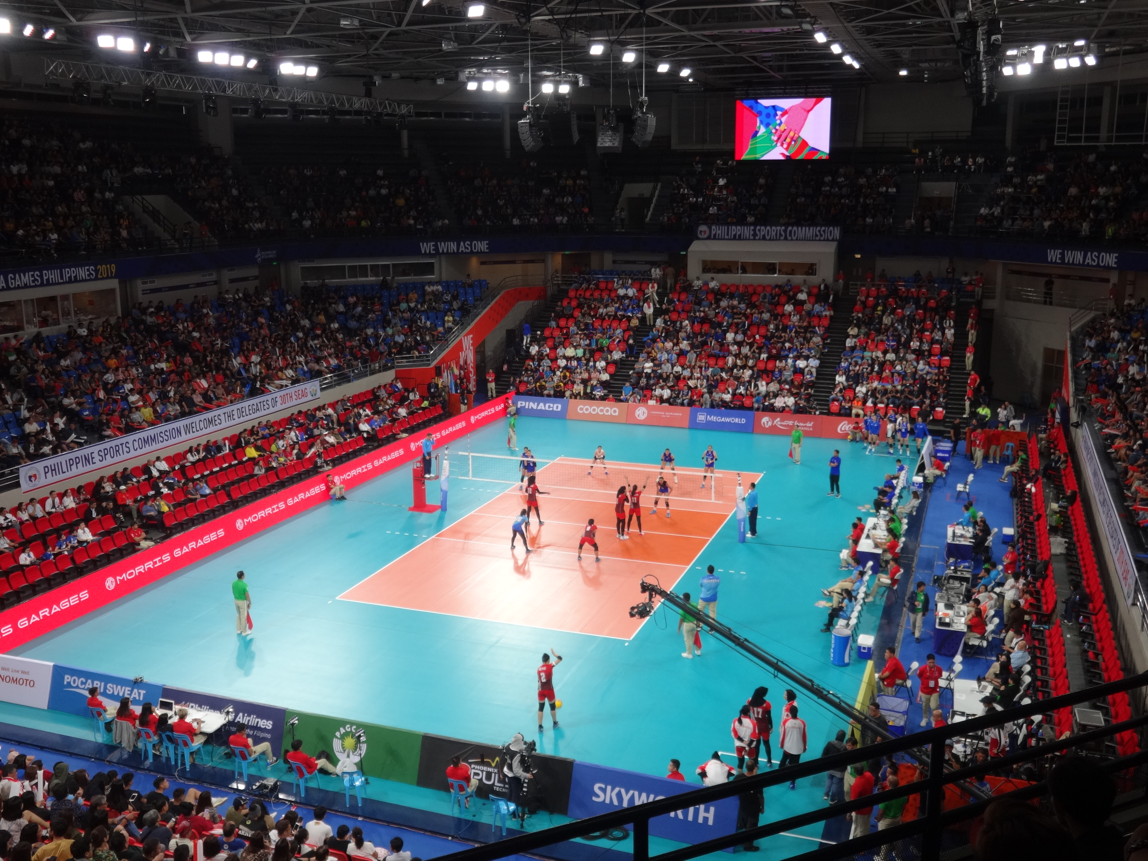 Inside the Philsports Arena in Pasig during a SEA Games 2019 volleyball match